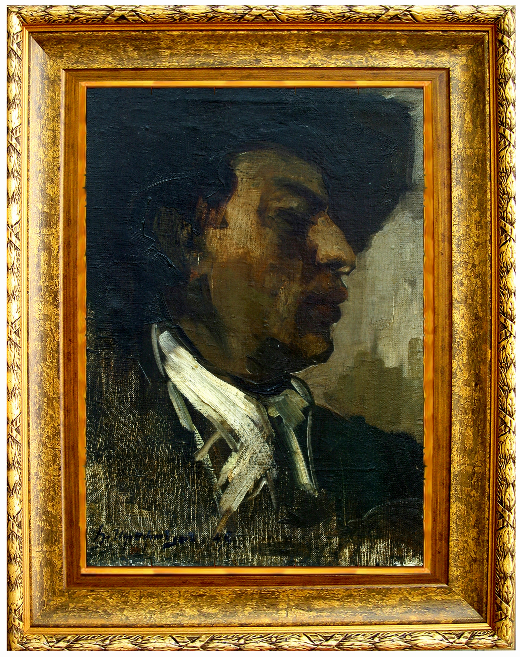 Self-portrait